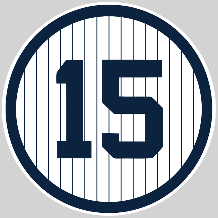 Image represents the current version of Thurman Munson's No. 15 seen in Monument Park in Yankee Stadium